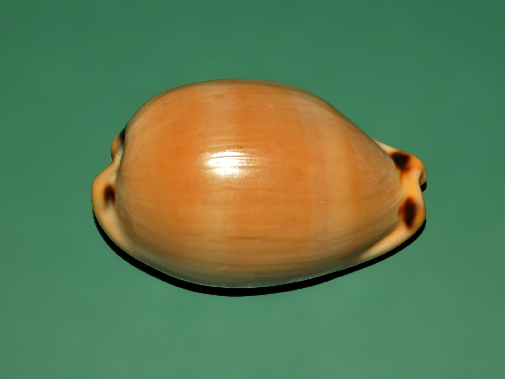 Luria lurida - Sicily